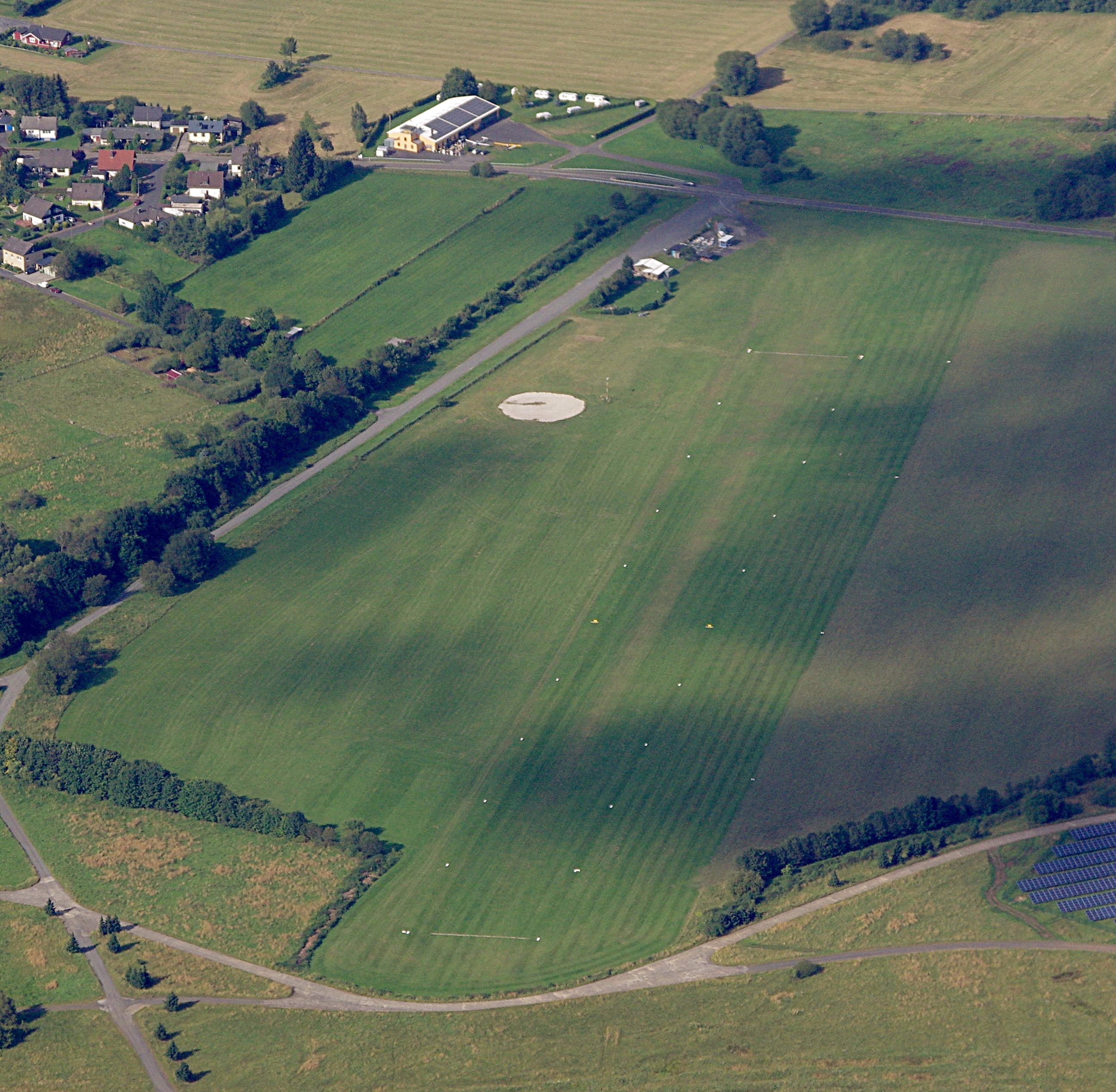 Aerial view of the Ailertchen aerodrome (EDGA)